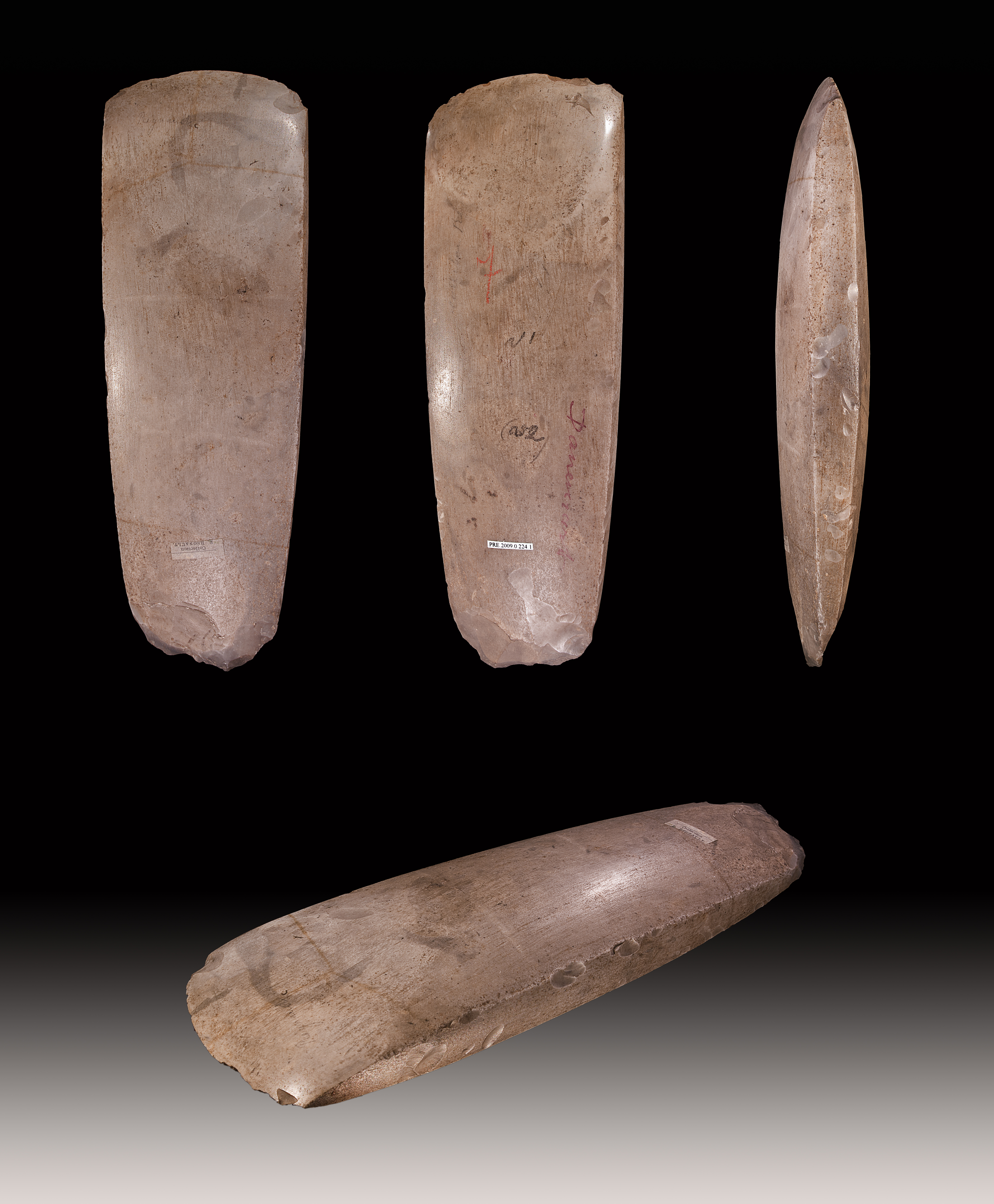 Polished ax.Different views of the same specimen.